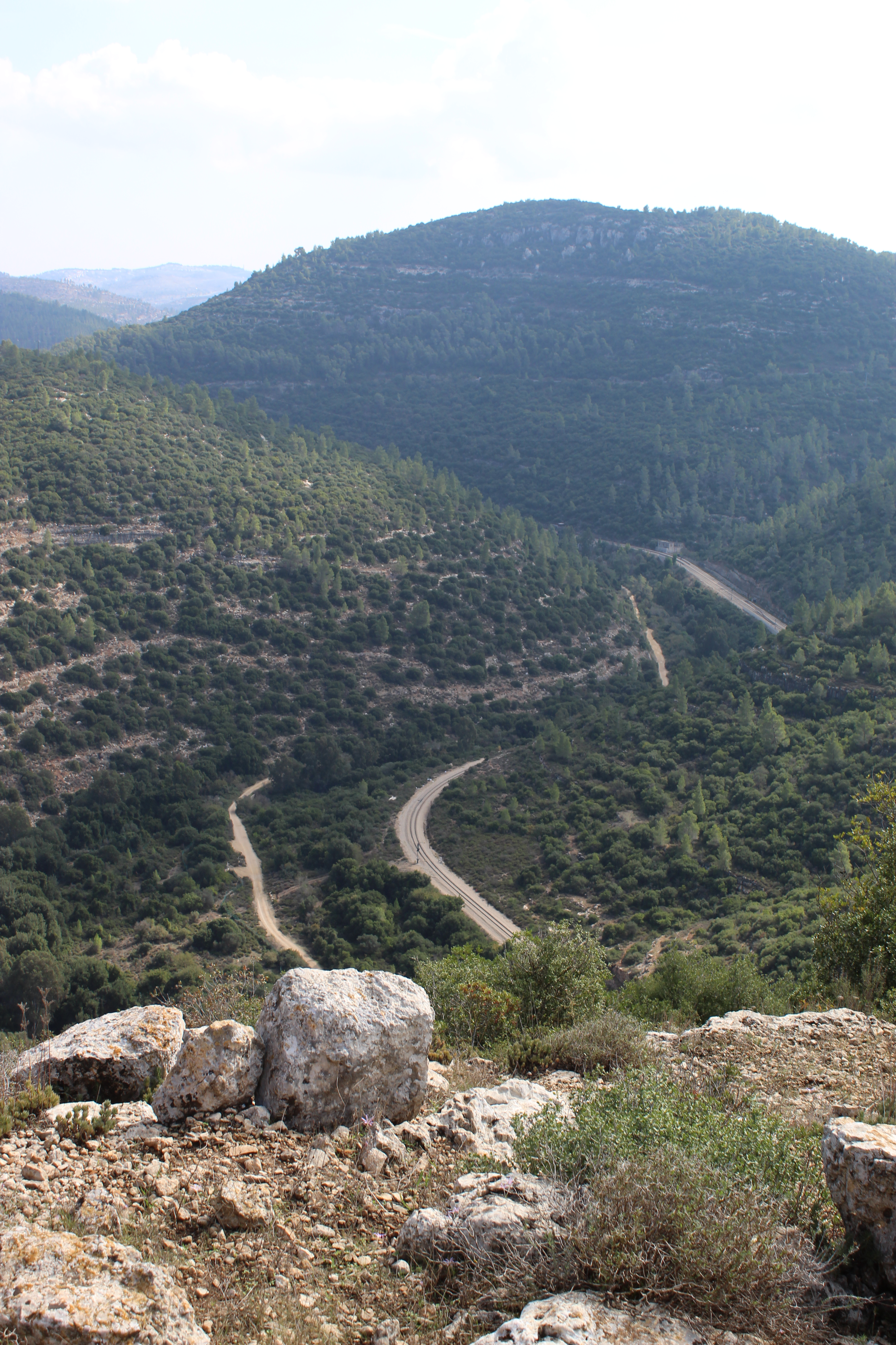 View of Nahal Sorek (Canon EOS 4000D)